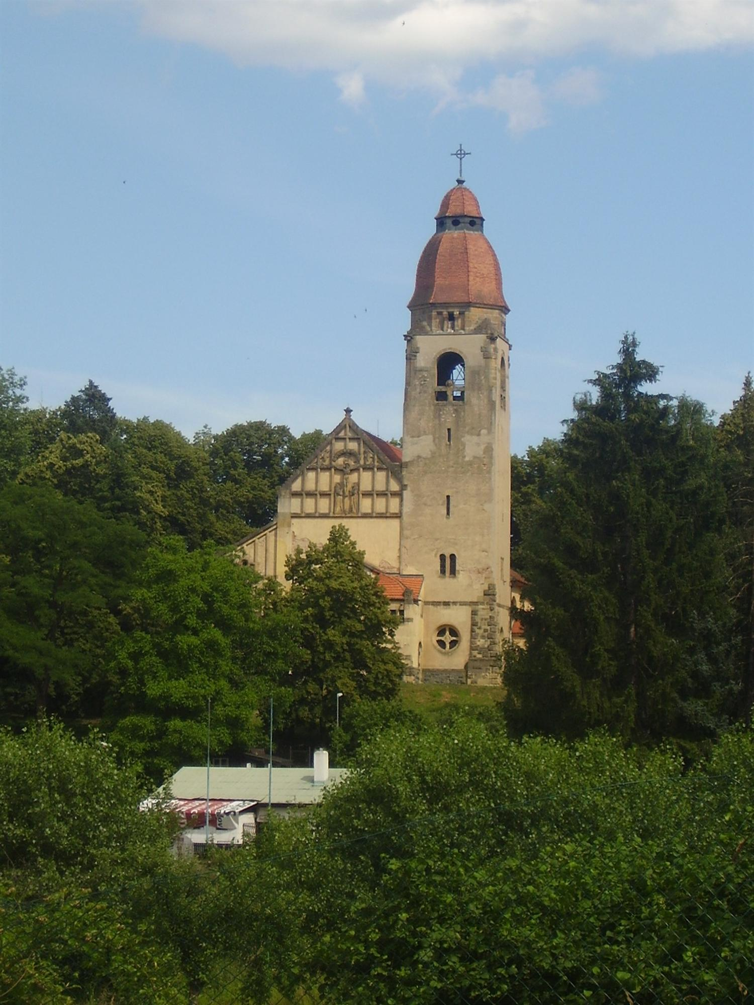 Church of St. John Nepomucene in Štěchovice, Prague-West District, Czech Republic